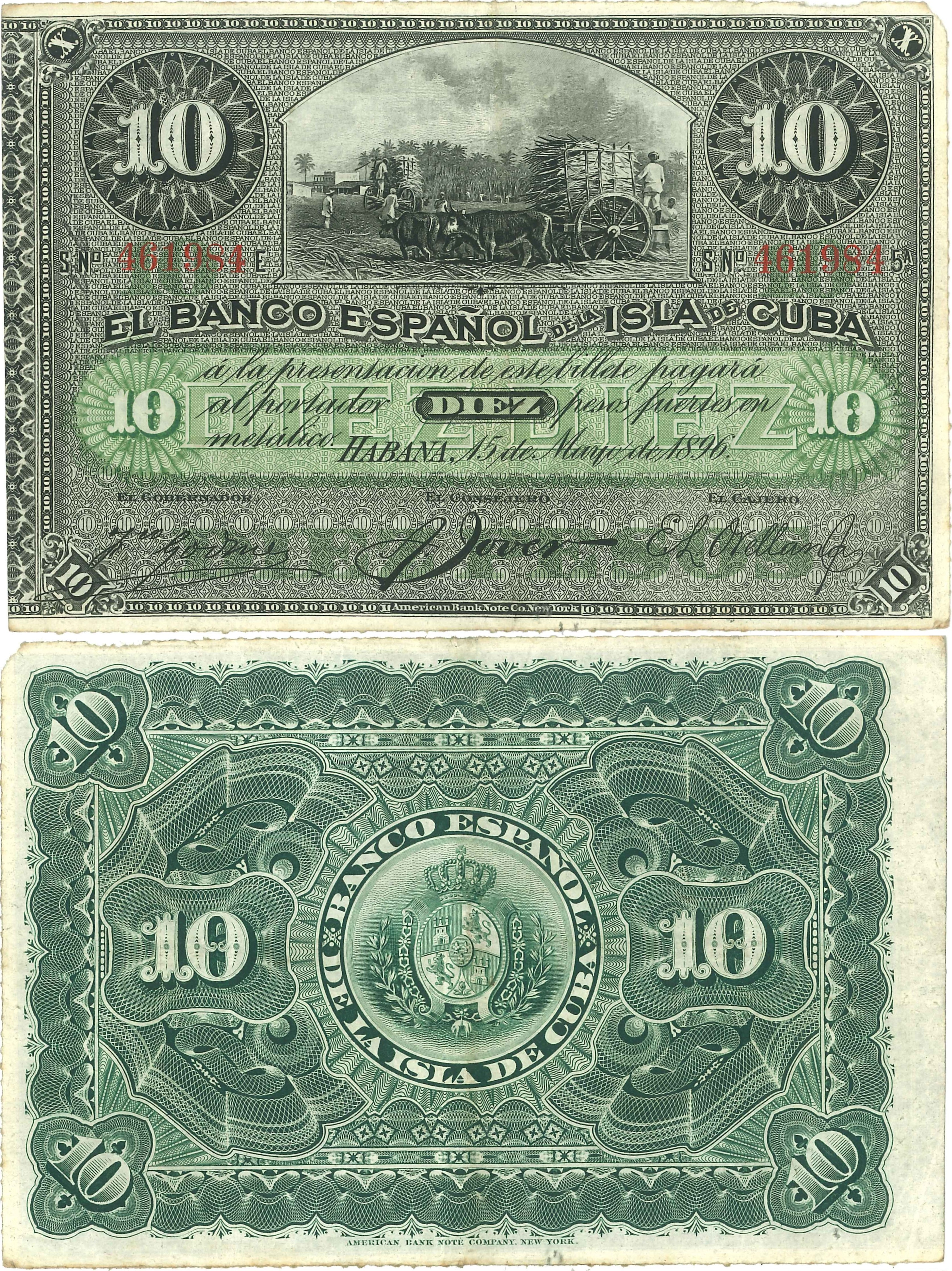 10 peso banknote of Spanish Cuba, issued by the Banco Español de la Isla de Cuba in 1896.Engraved and printed by the American Bank Note Company, New York.